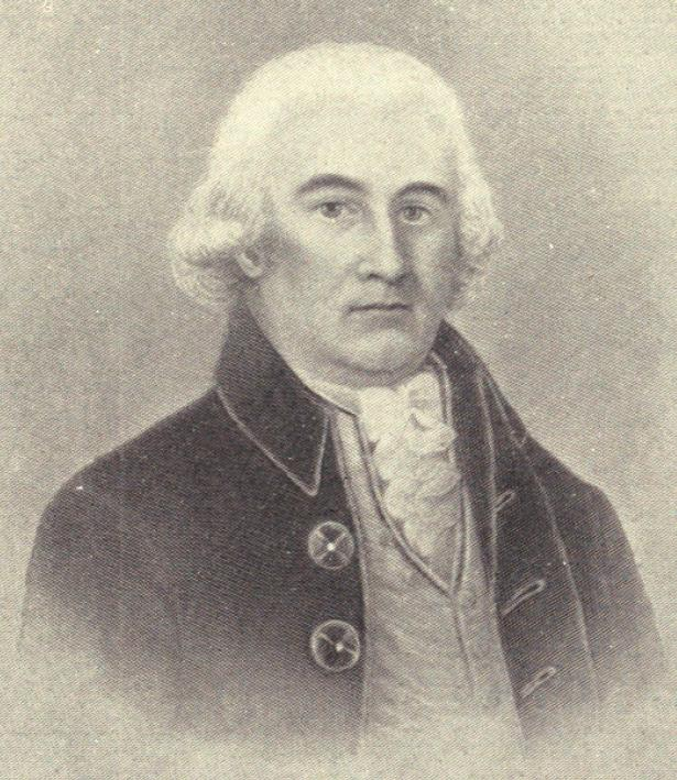 Roger Enos, Revolutionary War officer.